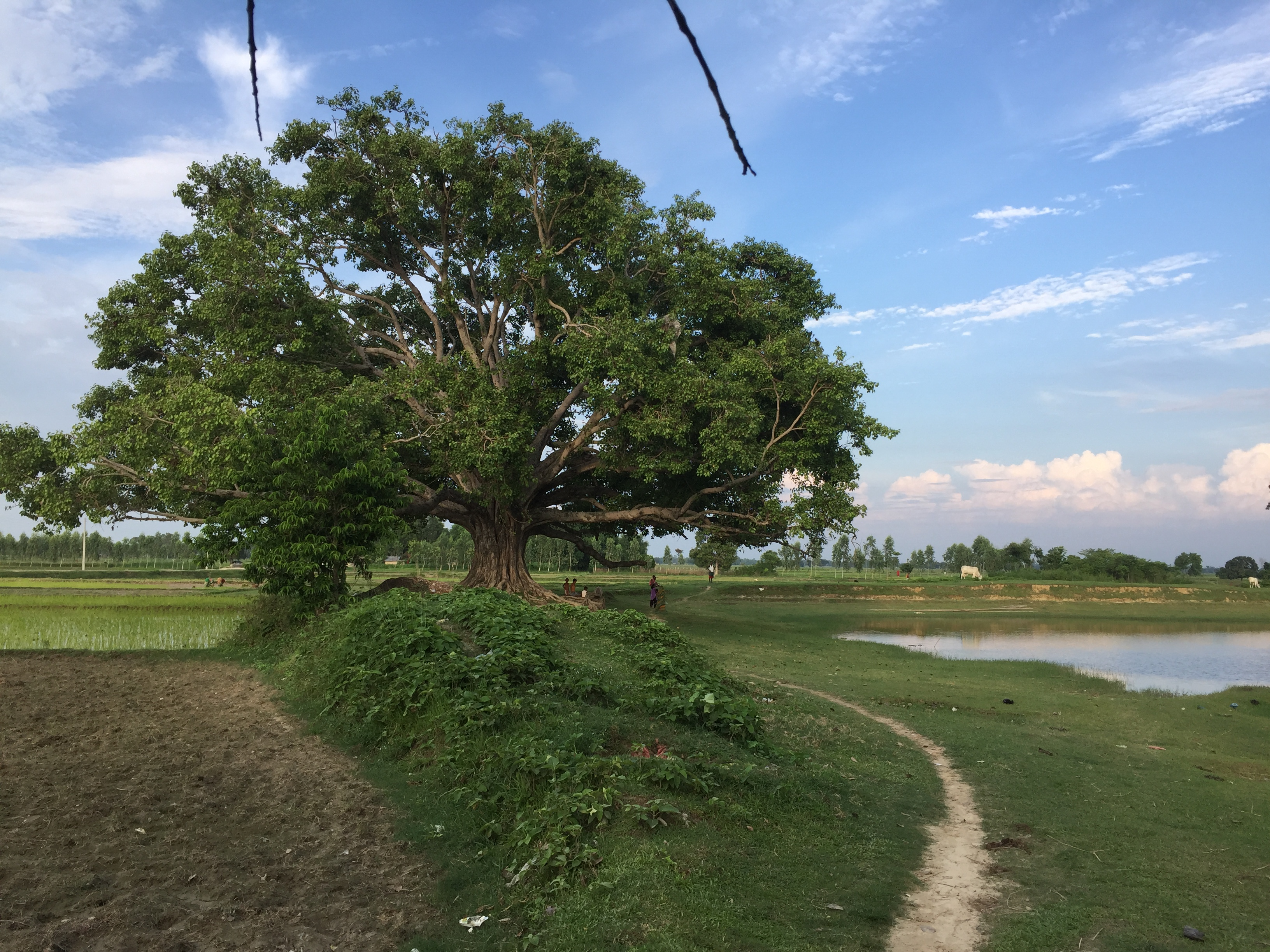 This is one of the oldest tree in that region. Peepal tree(Ficus religiosa) is on the northern bank distinguishes this pond from far away.